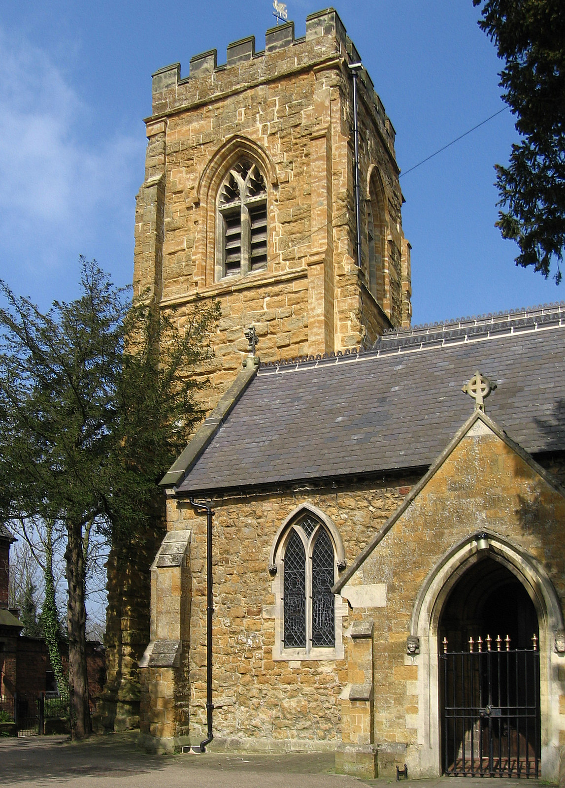 Market Rasen - St Thomas Church tower